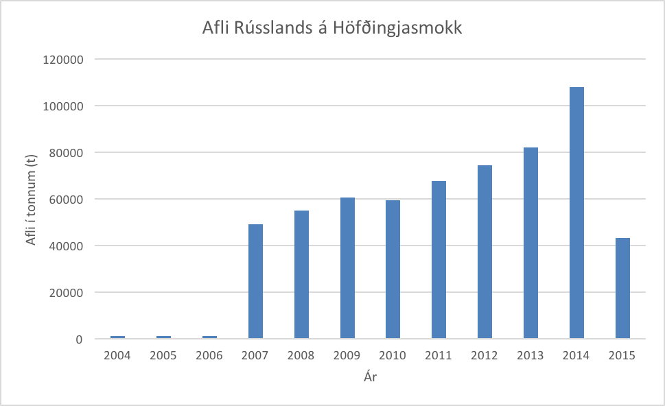 Catch of Comander squid